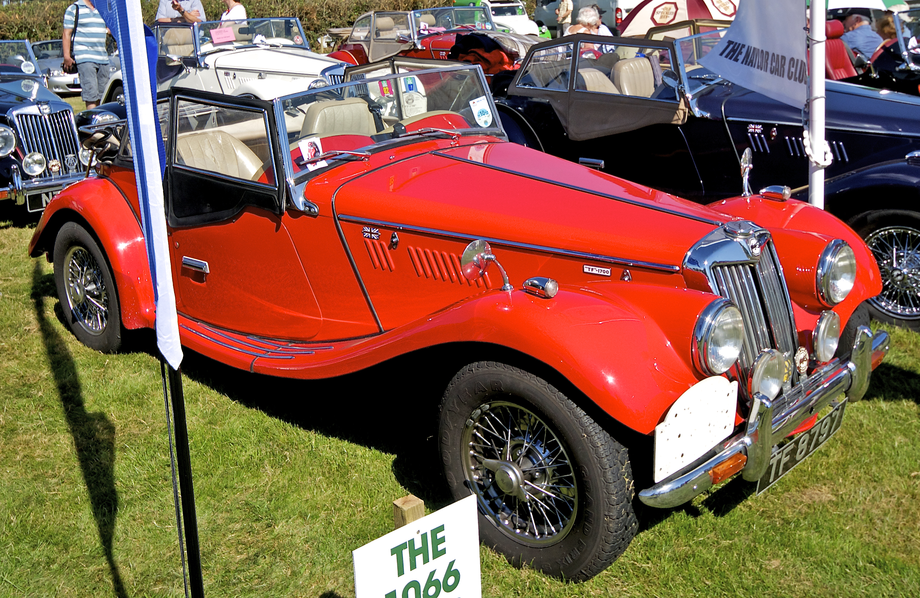 1986 Naylor TF 1700 (amongst a horde of same) at the Classic Cars By The Lake show (UK)